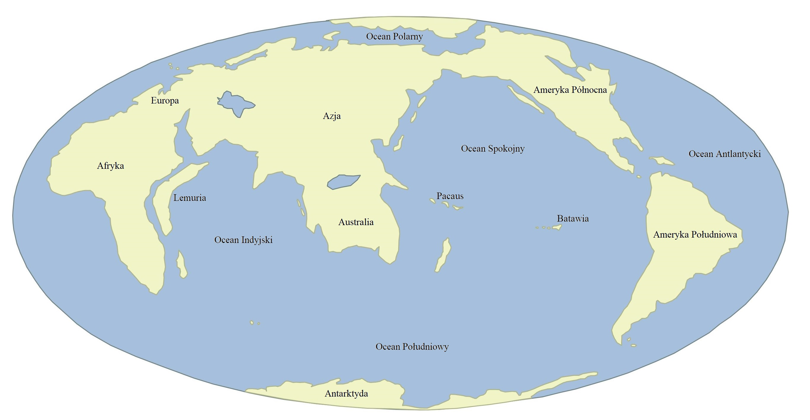 The World presented in book "After Man: a zoology of the future" by Dougal Dixon.